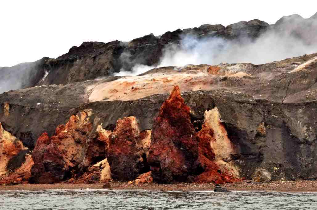 Smoking Hills southeast of Cape Bathurst, NT (Canada)